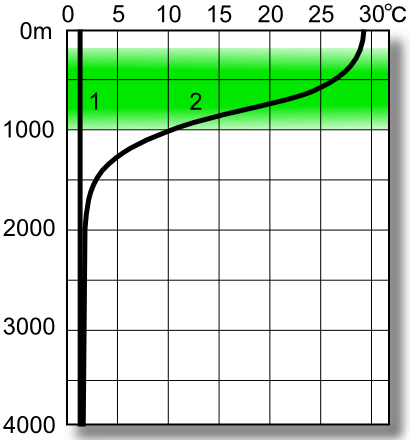 Deep Sea's Temperature-Depth graph (No text)